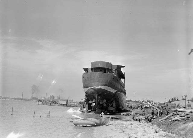 The launch of HMCS Dundurn at the Canadian Bridge Company in Windsor, Ontario